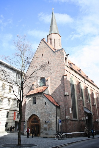 St. Salvator, Munich, external view